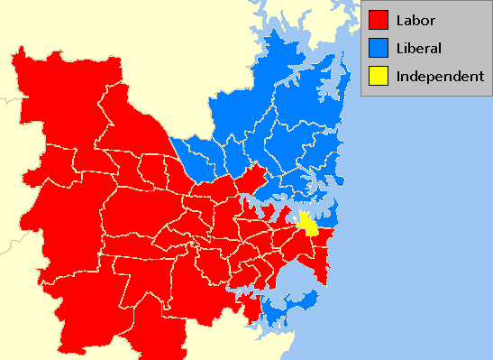 Results of the New South Wales general election, 2007, self made. See also: state map